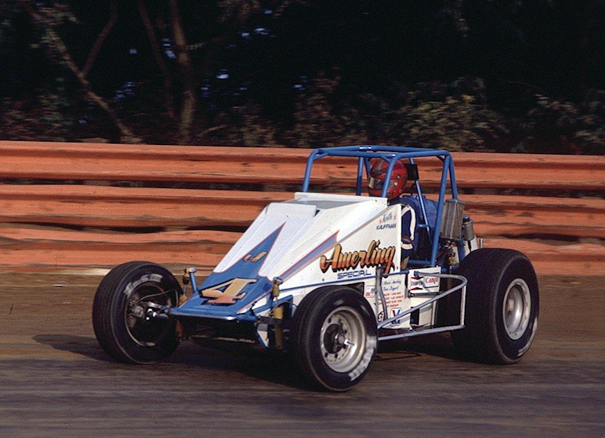 Sprint car hall of fame racer Keith Kauffman racing a wingless sprint car at Hagerstown, Maryland. Photograph by Ted Van Pelt.